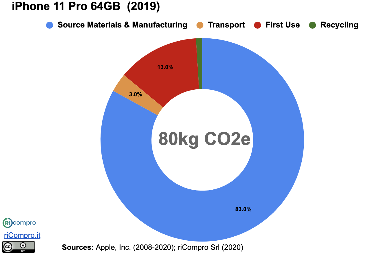 Carbon emissions caused by sourcing of primary materials, production, packaging and trasport, first usage and recycling of an iPhone 11 Pro